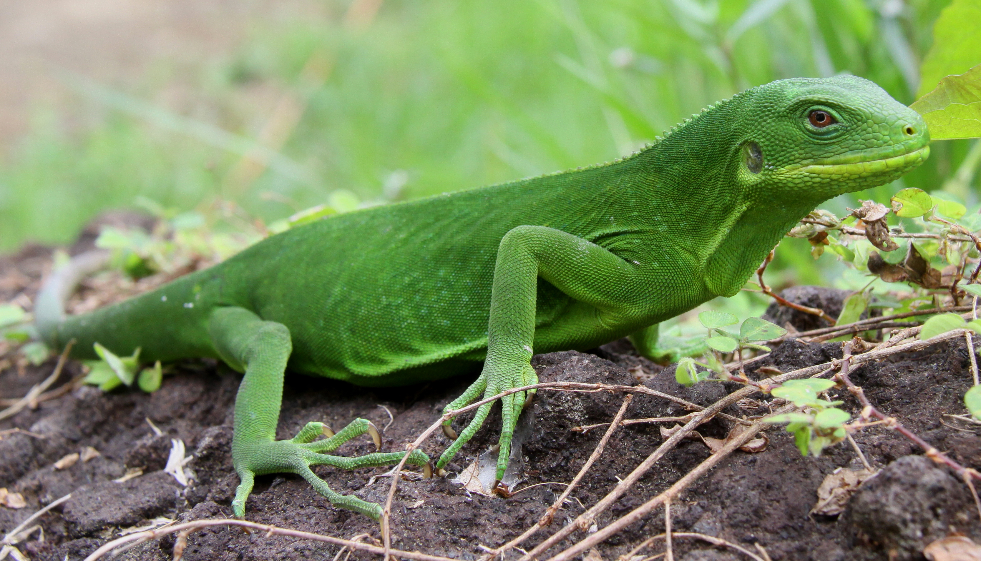 Female Gau Iguana (Brachylophus gau), Fiji